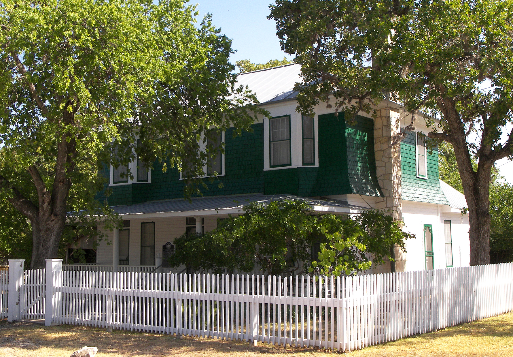 The B.F. Langford Jr. and Mary Hay House located in Bandera, Texas, United States. The house was designated a Recorded Texas Historic Landmark in 2002 and listed on the National Register of Historic Places on March 22, 2004.